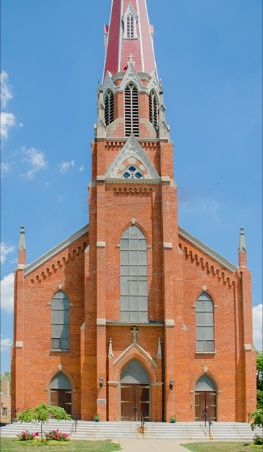 Church